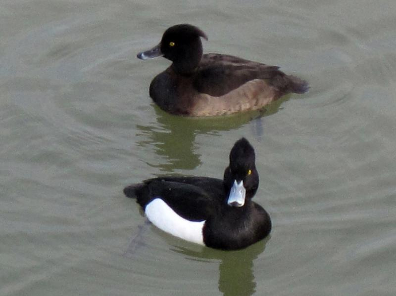 Aythya fuligula (Tufted Duck), Arnhem, the Netherlands